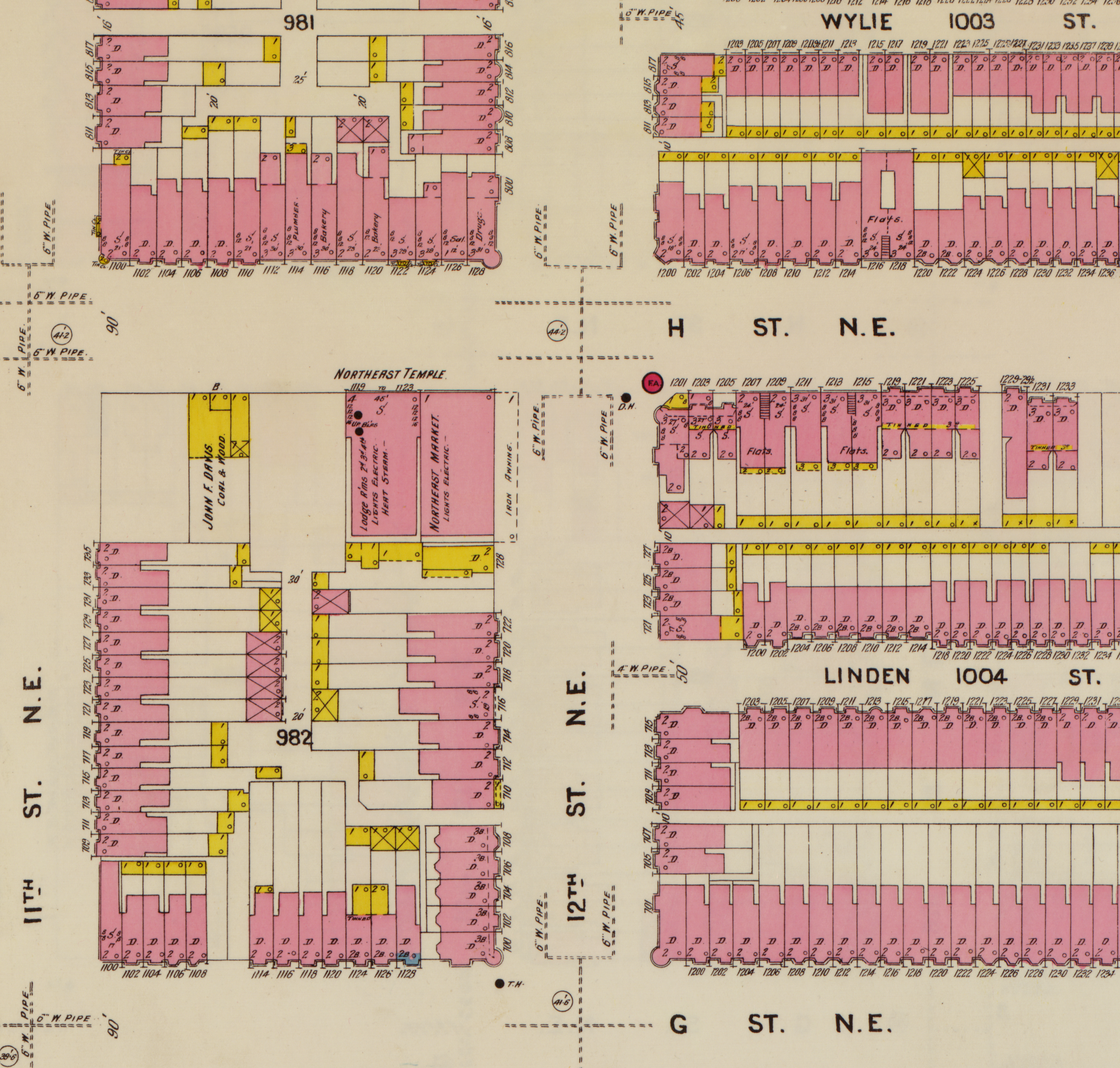 Detail from map 179 Sanborn Fire Insurance Map from Washington, DC. 1903-1916 showing the Northeast Temple and Northeast Market on H Street NE